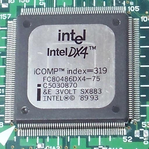 IntelDX4™ FC80486DX4-75 SX883 75MHz (3×25MHz) 16kB Cache L1 WT, from Toshiba laptop, January 1995